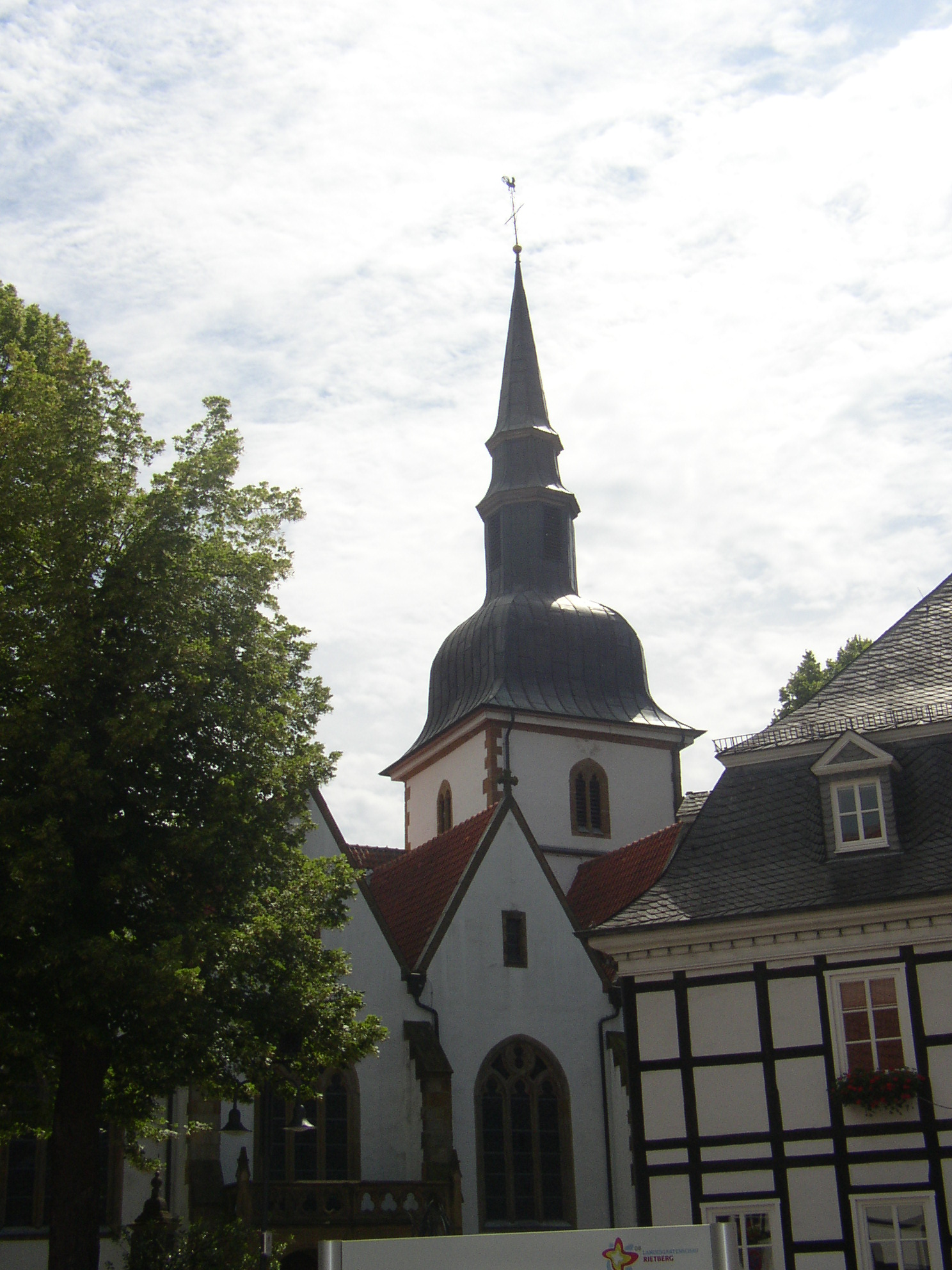 catholic parish church St. Johannes Baptist in Rietberg, Germany